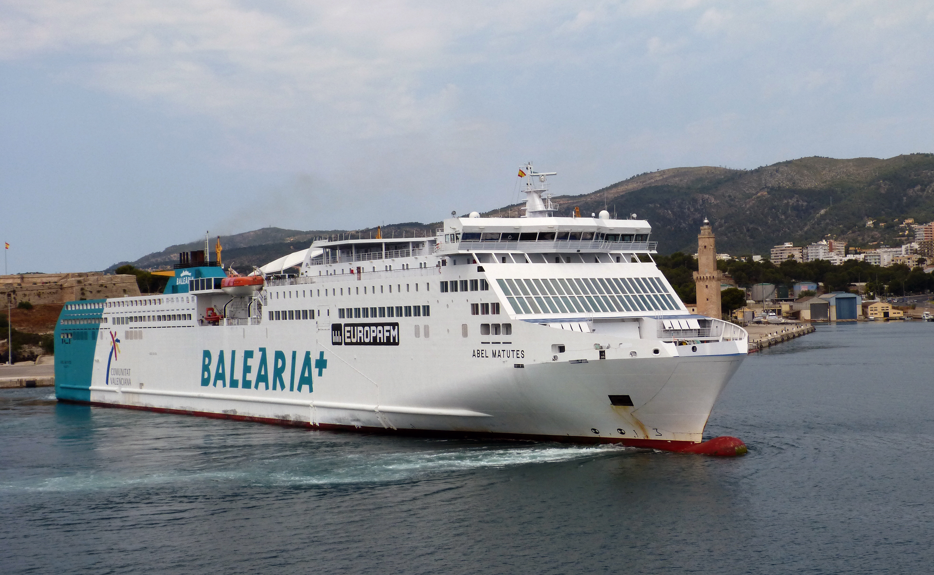 The Ro-Ro Ferry 'Abel Matutes' of the spanish shipping company 'Balearia' at the port of Palma de Mallorca